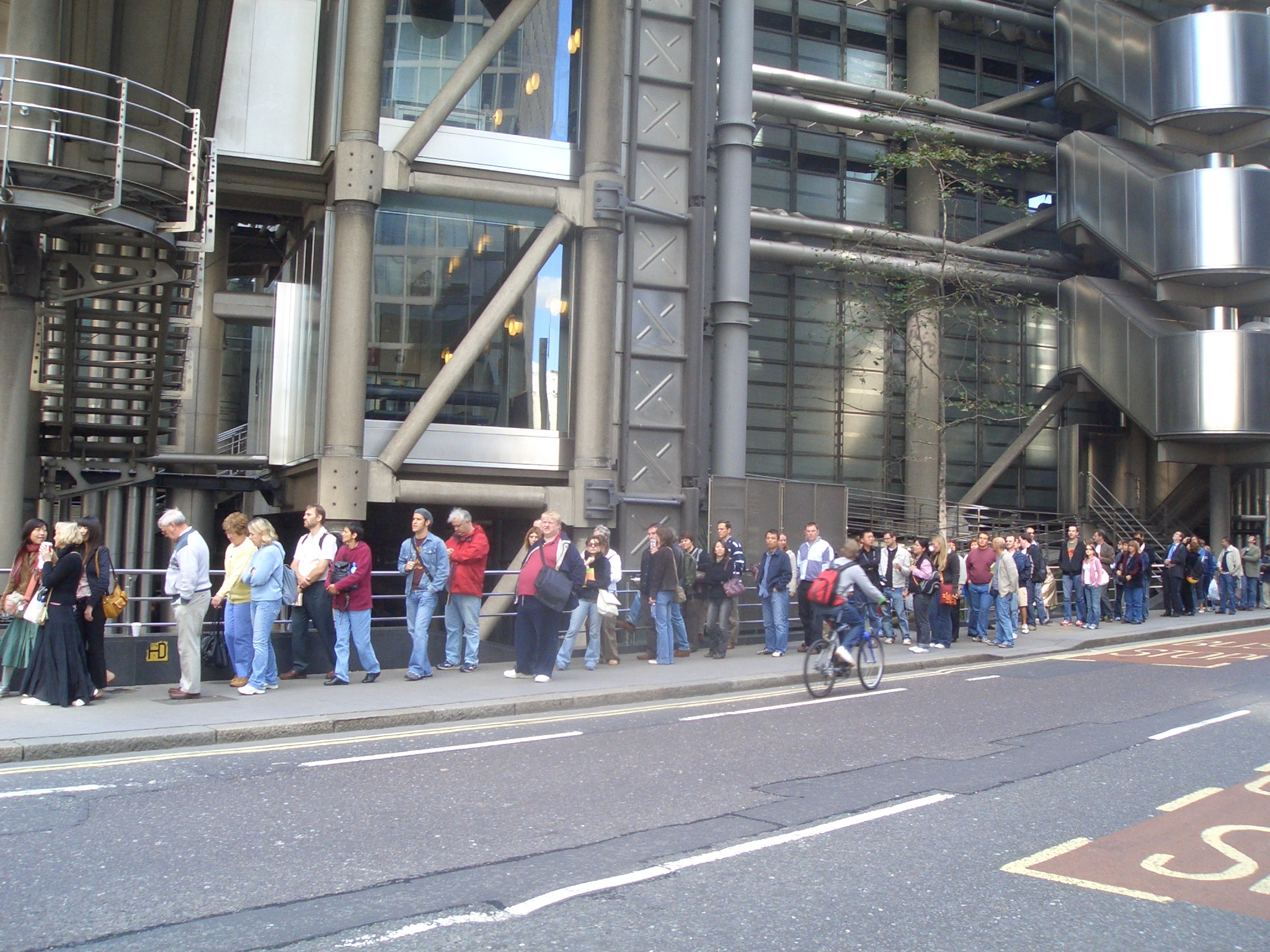 A queue of people waiting to look around the Lloyd's building as part of Open House London. Photo taken 17 September 2005 by User:Edward.